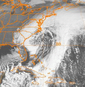 National Climatic Data Center GIBBS satellite archive ftp://eclipse.ncdc.noaa.gov/pub/isccp/b1/.D2790P/images/2006/326/Img-2006-11-22-15-GOE-12-VS.jpg